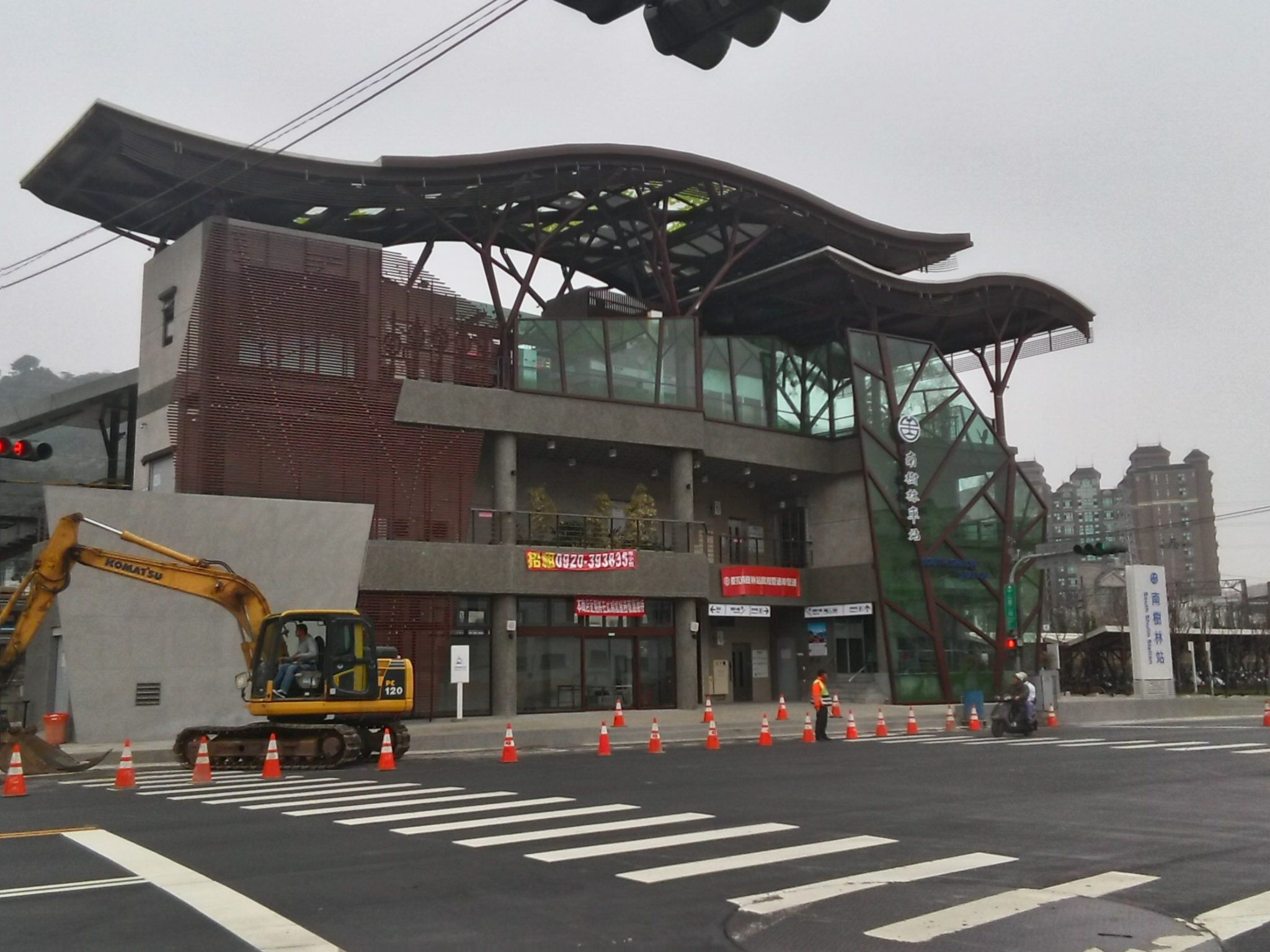 South Shulin Station, Shulin Town, Taipei County, Taiwan